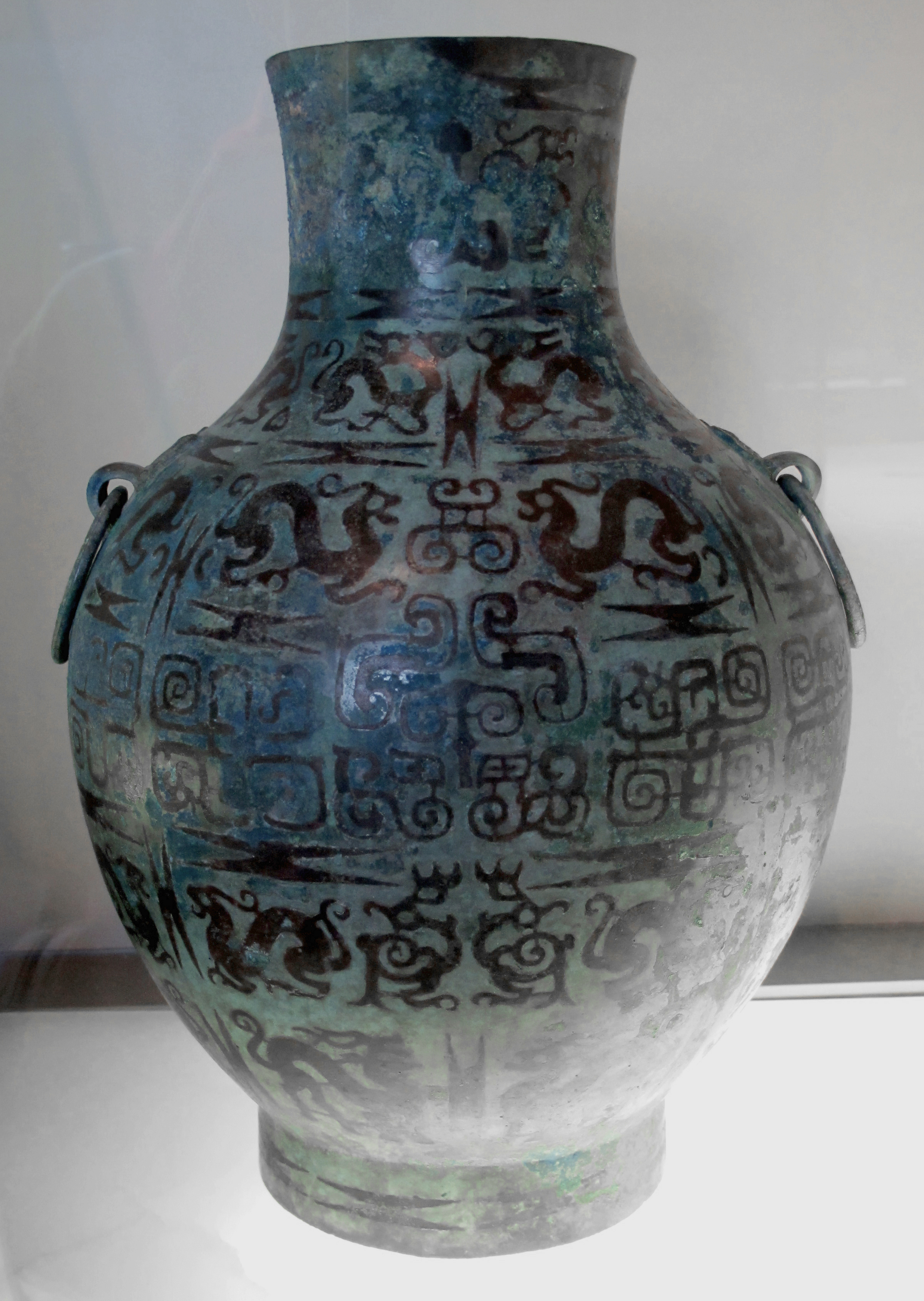 Vase hu . Bronze with copper inlay. H. 39.8 cm. 5th century BCE. Beginning of the Warring States period. M.C. 2003-2. Musée Cernuschi. Paris.